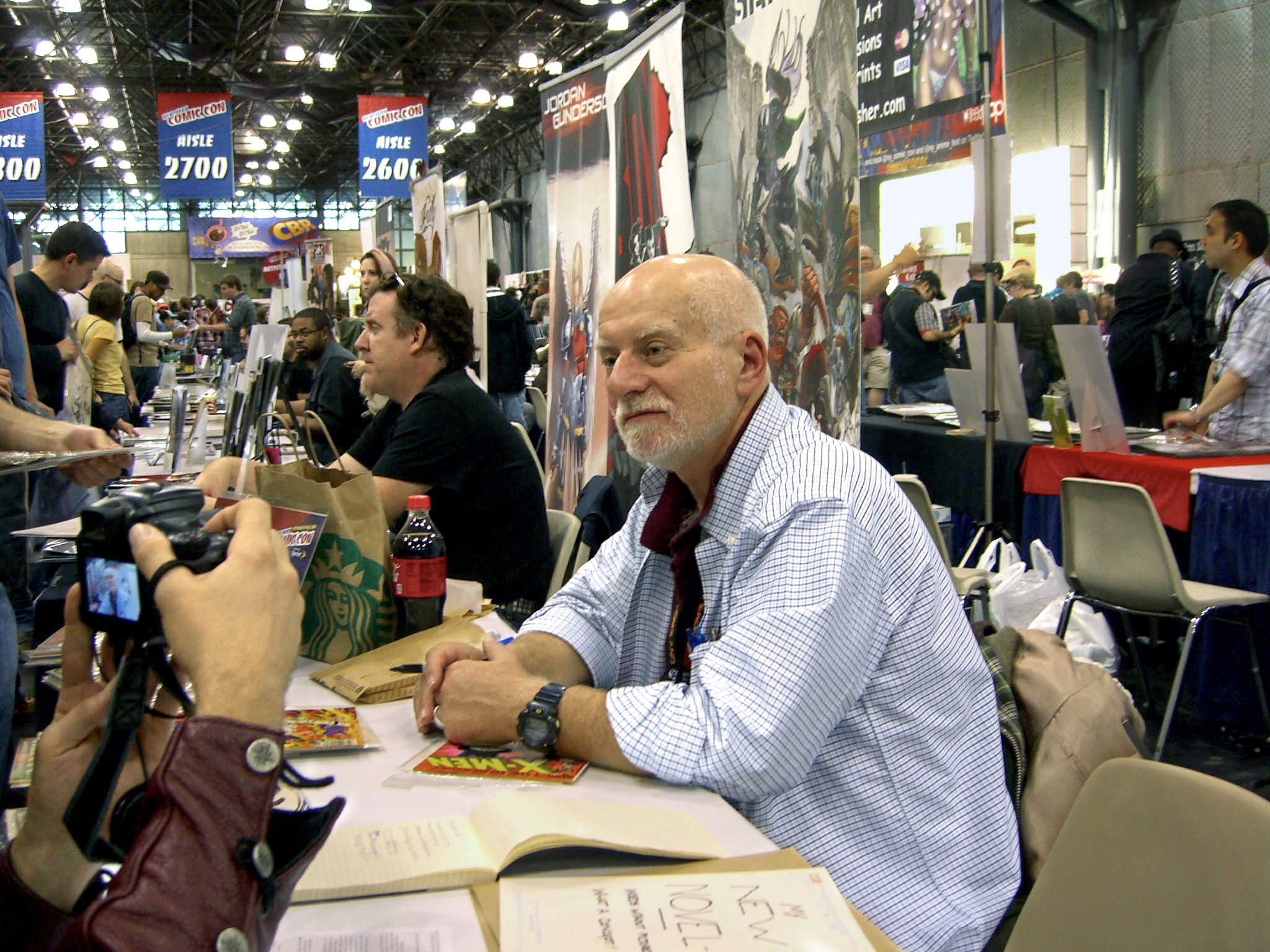 Comics creator and novelist Chris Claremont being interviewed at the New York Comic Con, October 16, 2011. This photo was created by Luigi Novi. It is not in the public domain, and use of this file outside of the licensing terms is a copyright violation.